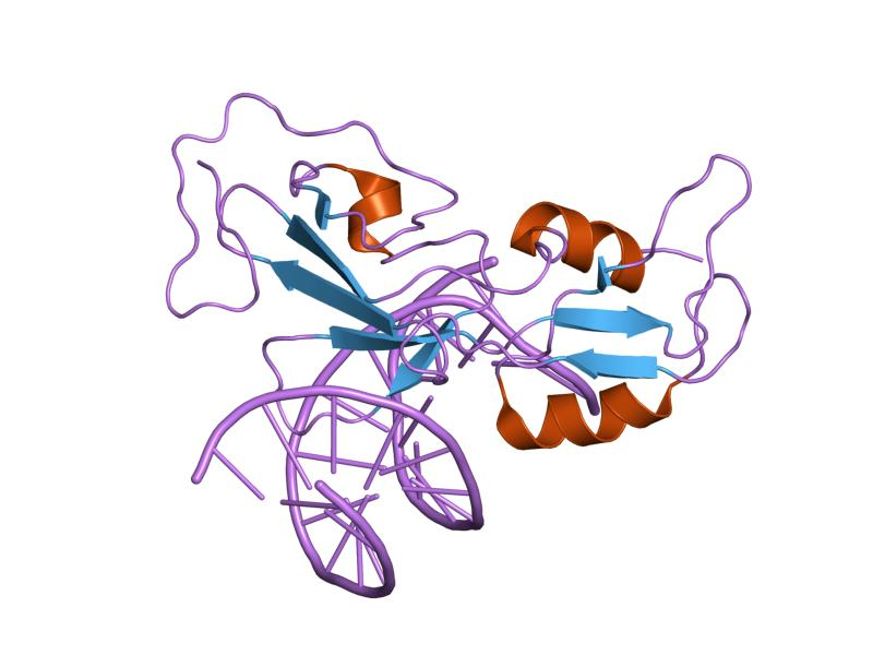 Cartoon representation of the molecular structure of protein registered with 1odh code.